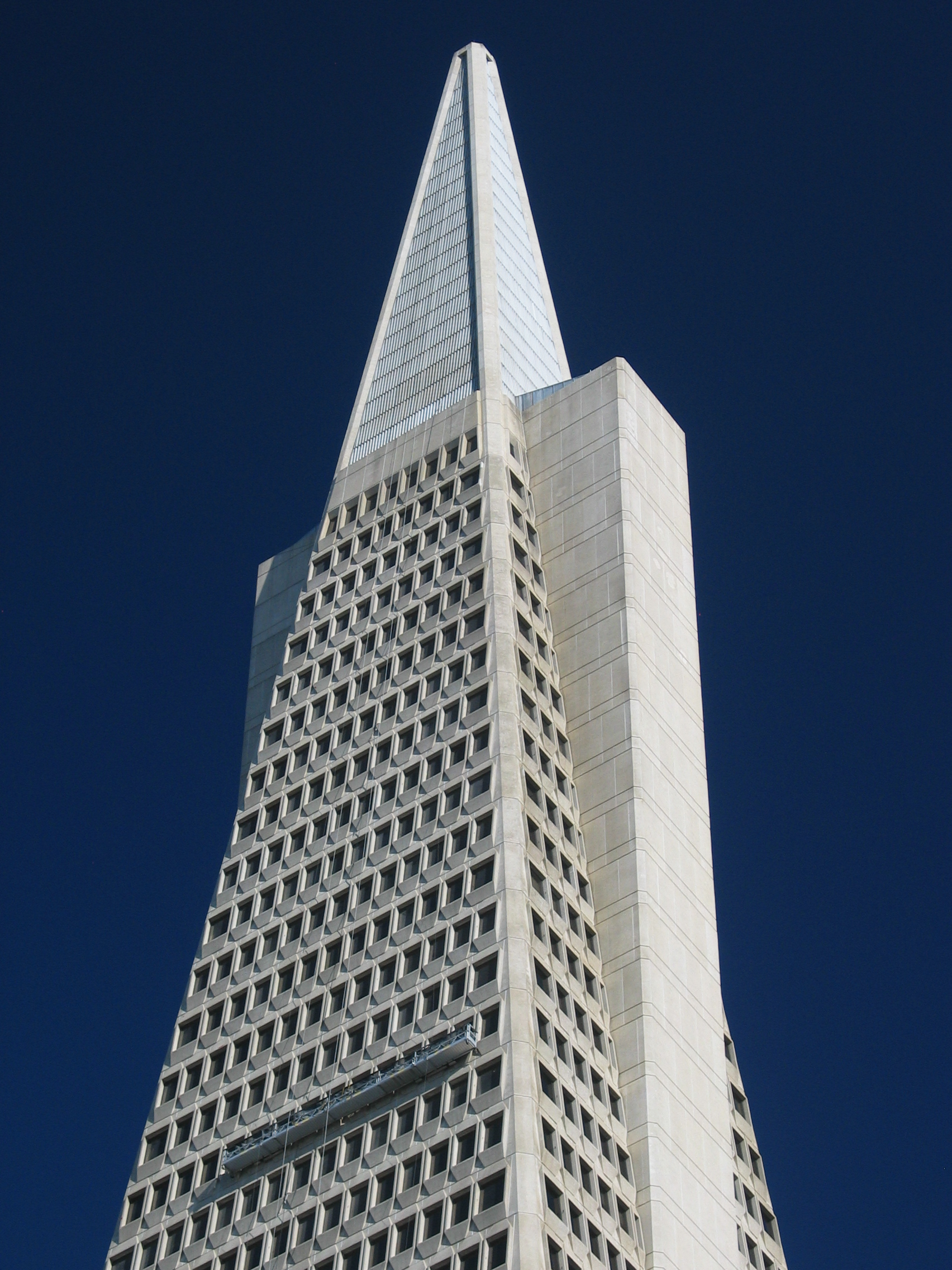 Top of the Transamerica building, downtown San Francisco, CA, USA